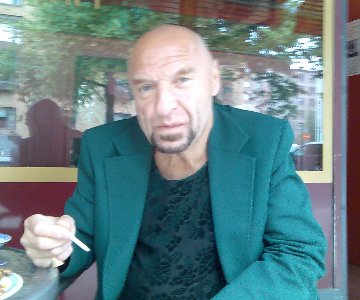 Remu Aaltonen in Tampere, July 2007